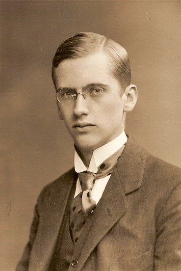 A young Gunnar Aspelin (1898-1977), Swedish philosopher and professor.